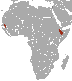 Desert Musk Shrew (Crocidura smithii) range